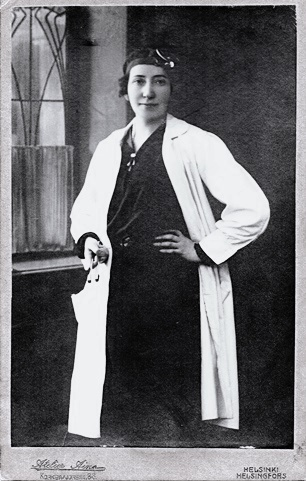 Finnish physician, specialised in the physiology of singing.